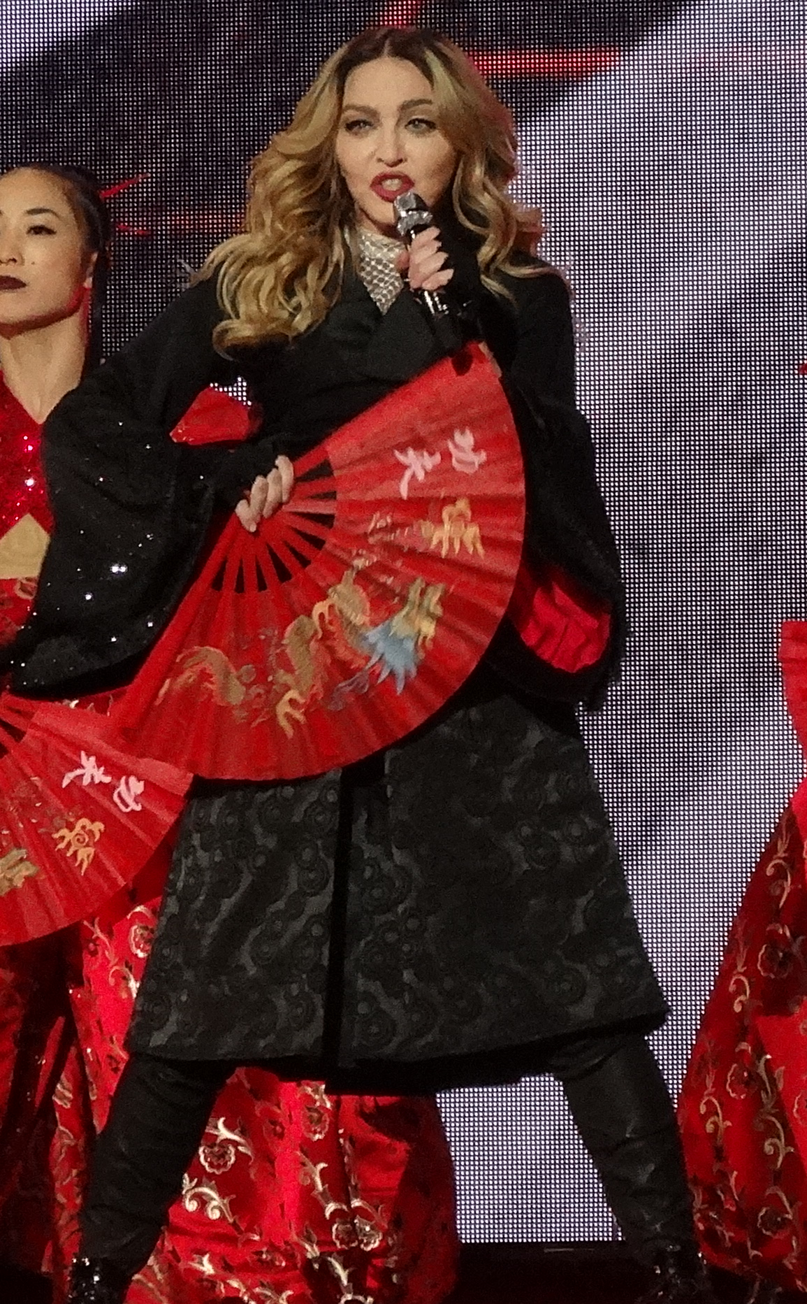 Live in Taiwan Rebel Heart Tour